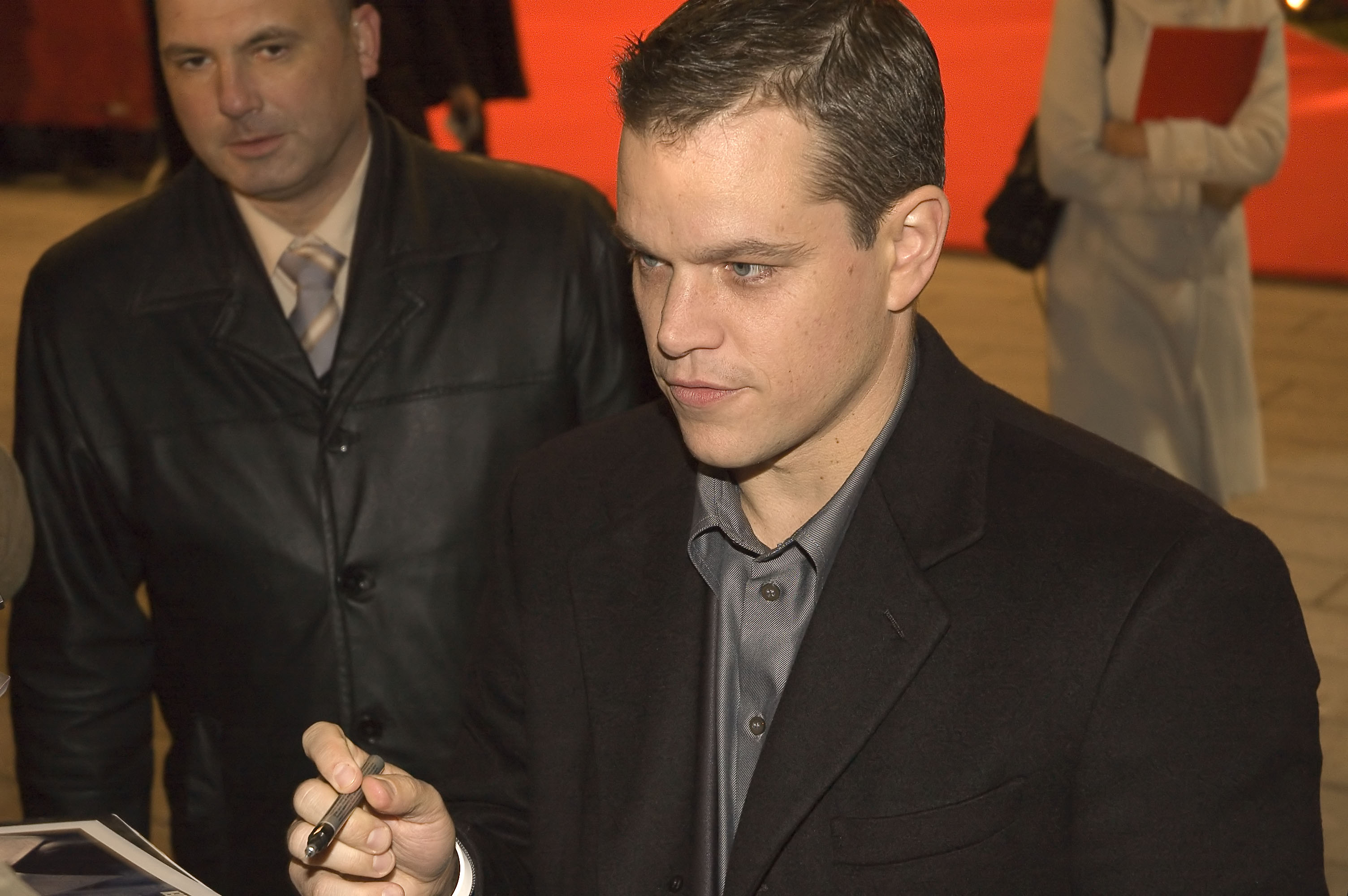 Matt Damon signing autographs. Arrival for the premiere of The good shepherd, Berlinalepalast, Postdamer Platz, Marlene-Dietrich-Platz.